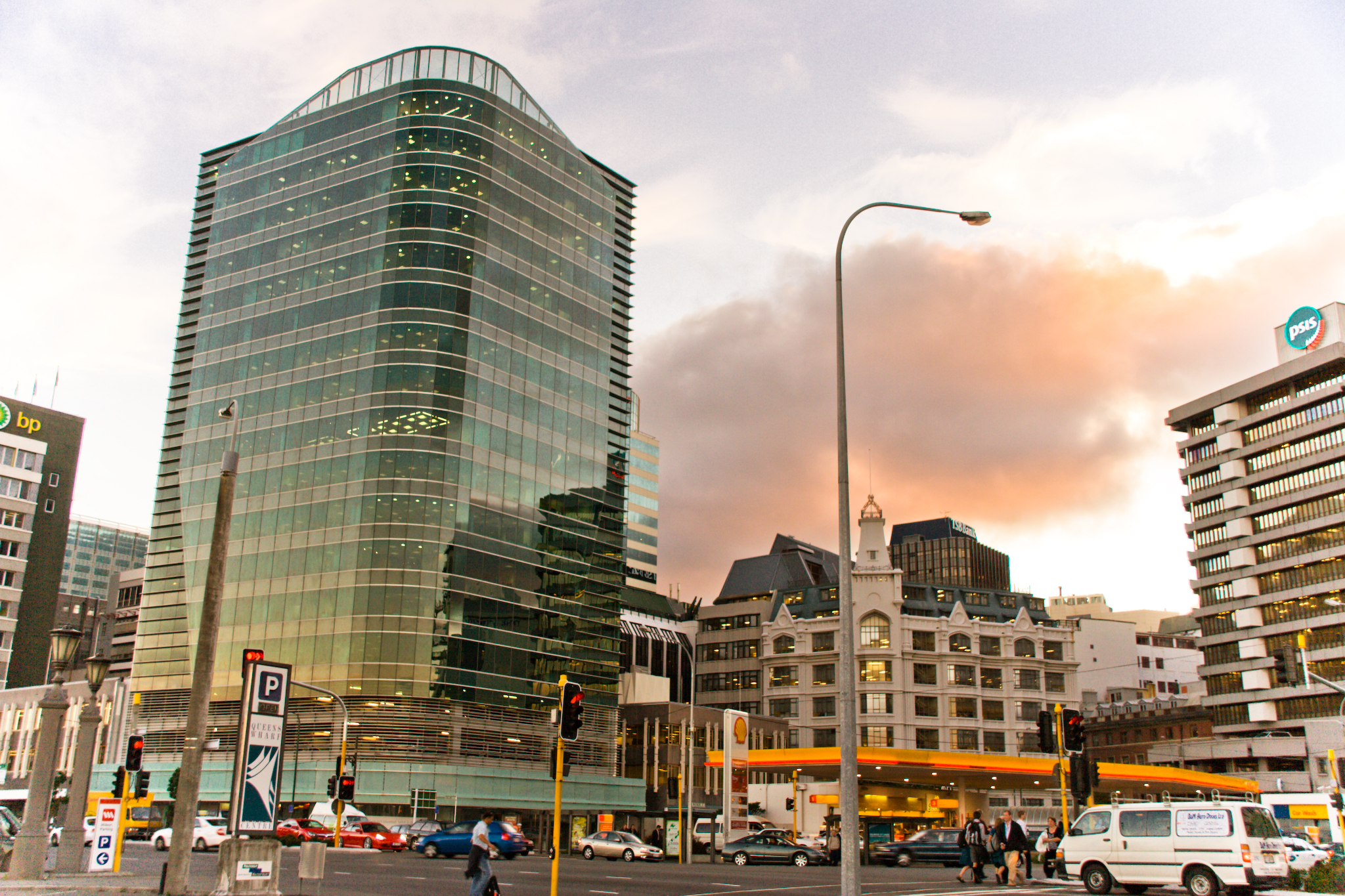 Maritime Tower, 10 Customhouse Quay. Also the former Dominion Farmers Institute Building.